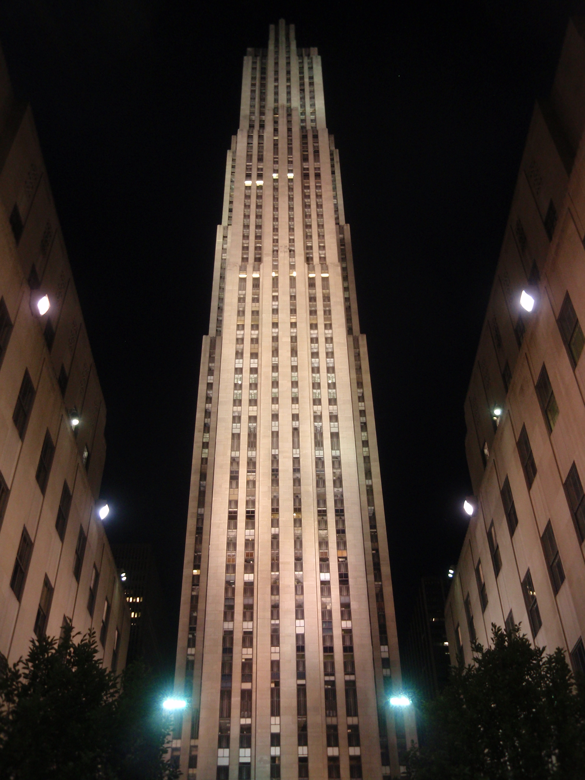 GE Building by night